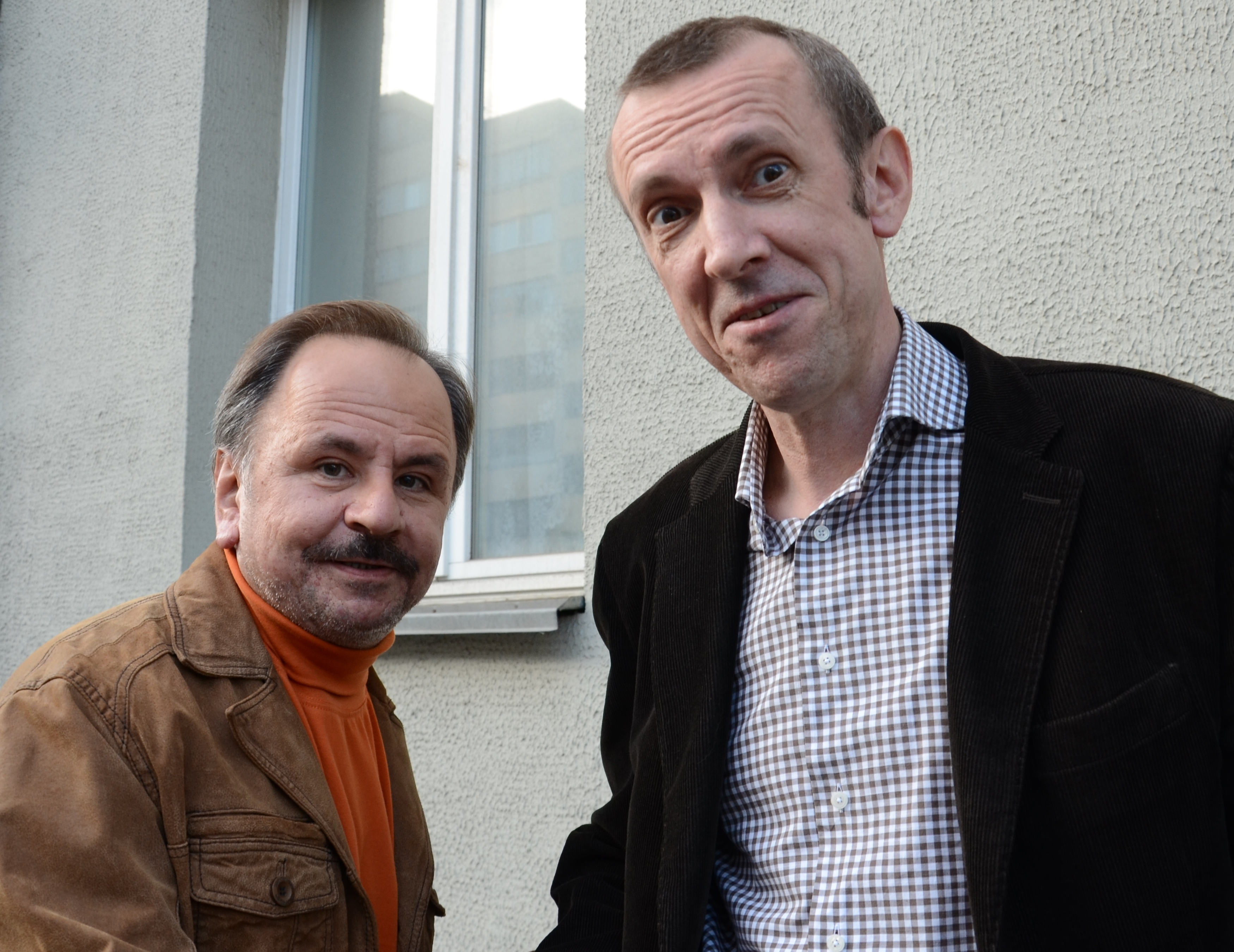 Belarusian journalist and art-critic Siarhej Chareūski at the opening of the exhibition of Valery Pesin in the gallery LaSandr Art in Minsk on 19 September 2014.